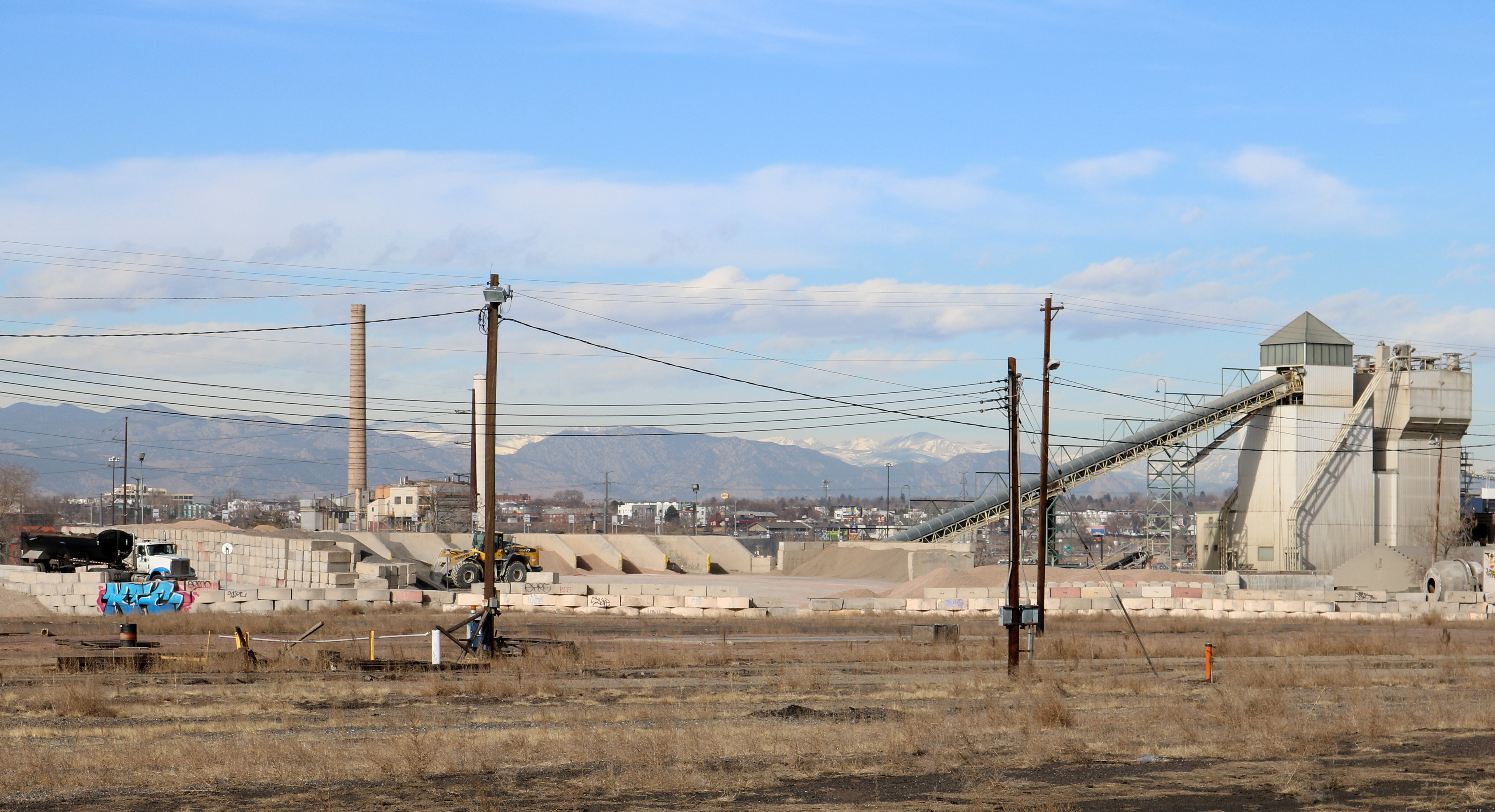 A view of Martin Marietta Materials' Quivas Ready Mix plant, located at 1145 Quivas Street in Denver, Colorado.